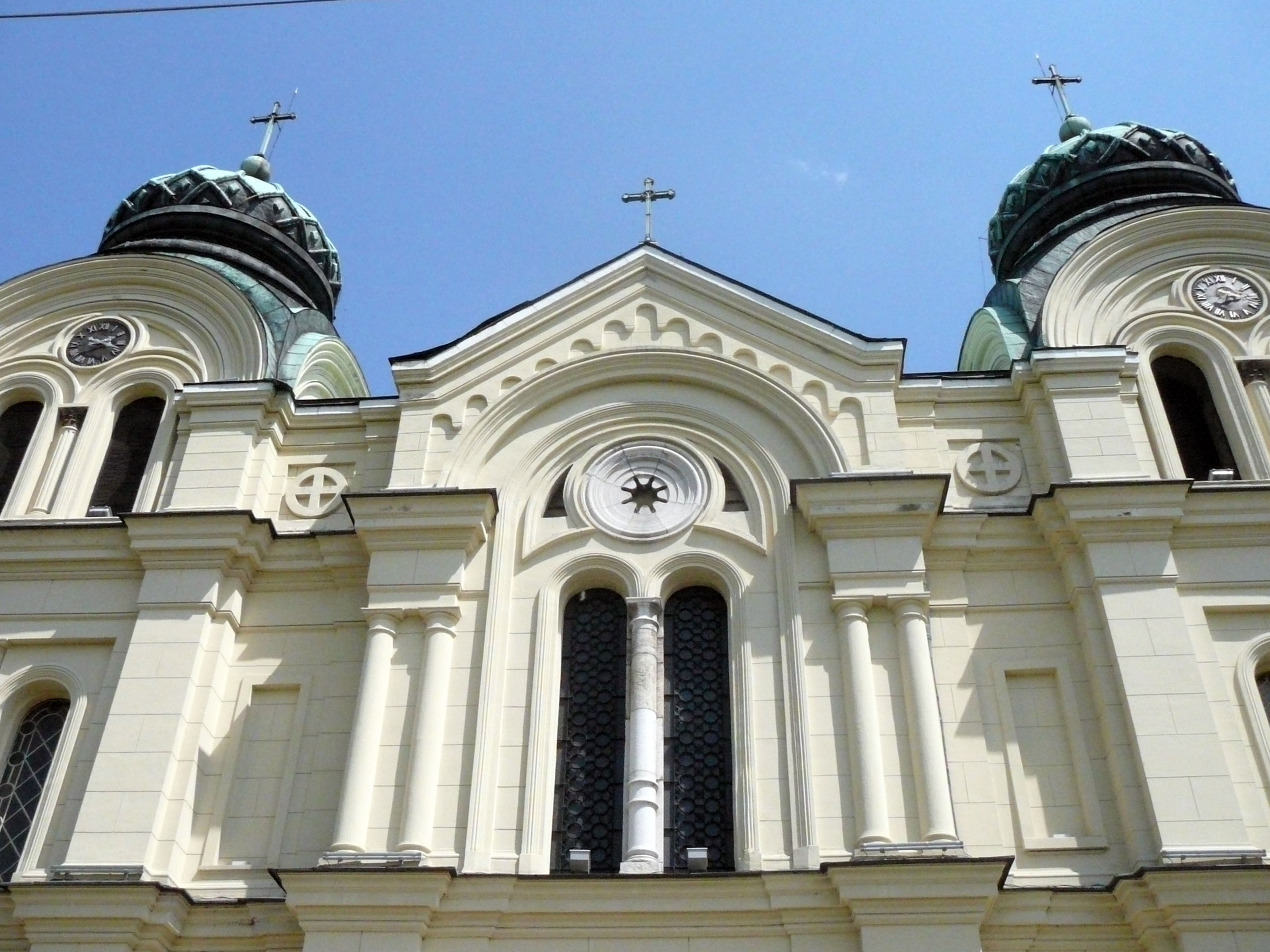 Cathedral of St Dimitar, Vidin, Bulgaria